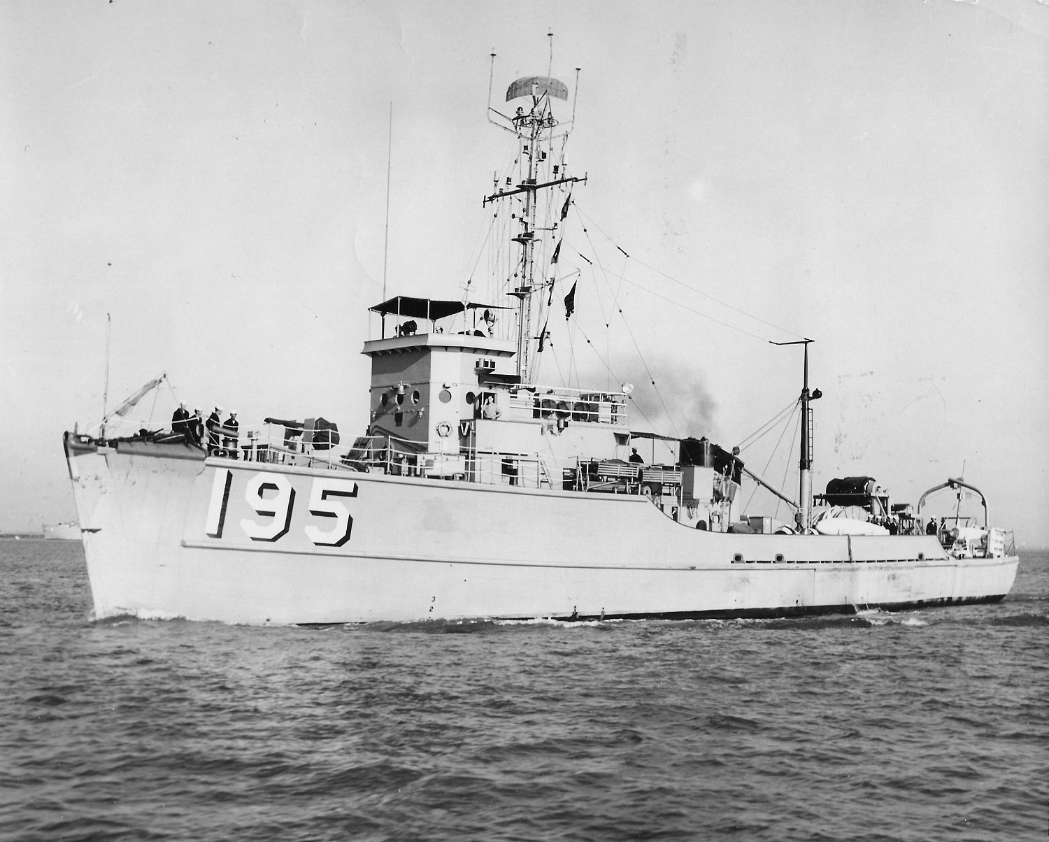 27 April 1962 - The coastal mine sweeper USS Limpkin (MSC-195) is one of 14 mine craft participating in LANTPHIBEX 1-62 at Vieques, Puerto Rico. Lantphibex 1-62 involved a Marine assault using the island of Vieques off the coast of Puerto Rico as a training exercise for a potential invasion of Cuba. President Kennedy was on hand to observe the exercise. Some 40,000 Marines was participating in this training session to disembark off of transports for a full scale landing. Minesweepers were on hand to practice clearing the shores off of Cuba of potential obstacles.